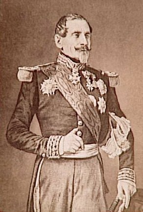 Marshal of France Armand Jacques Leroy de Saint-Arnaud (1796-1854). 19tyh century photograph.